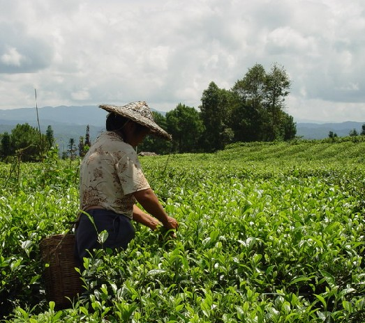 A women is picking Mao Feng Tea leaves.